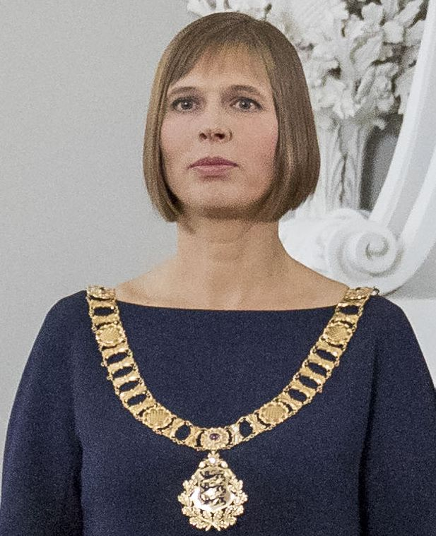 The President of Estonia Kersti Kaljulaid at the reception in Kadriorg Palace on October 10, 2016.